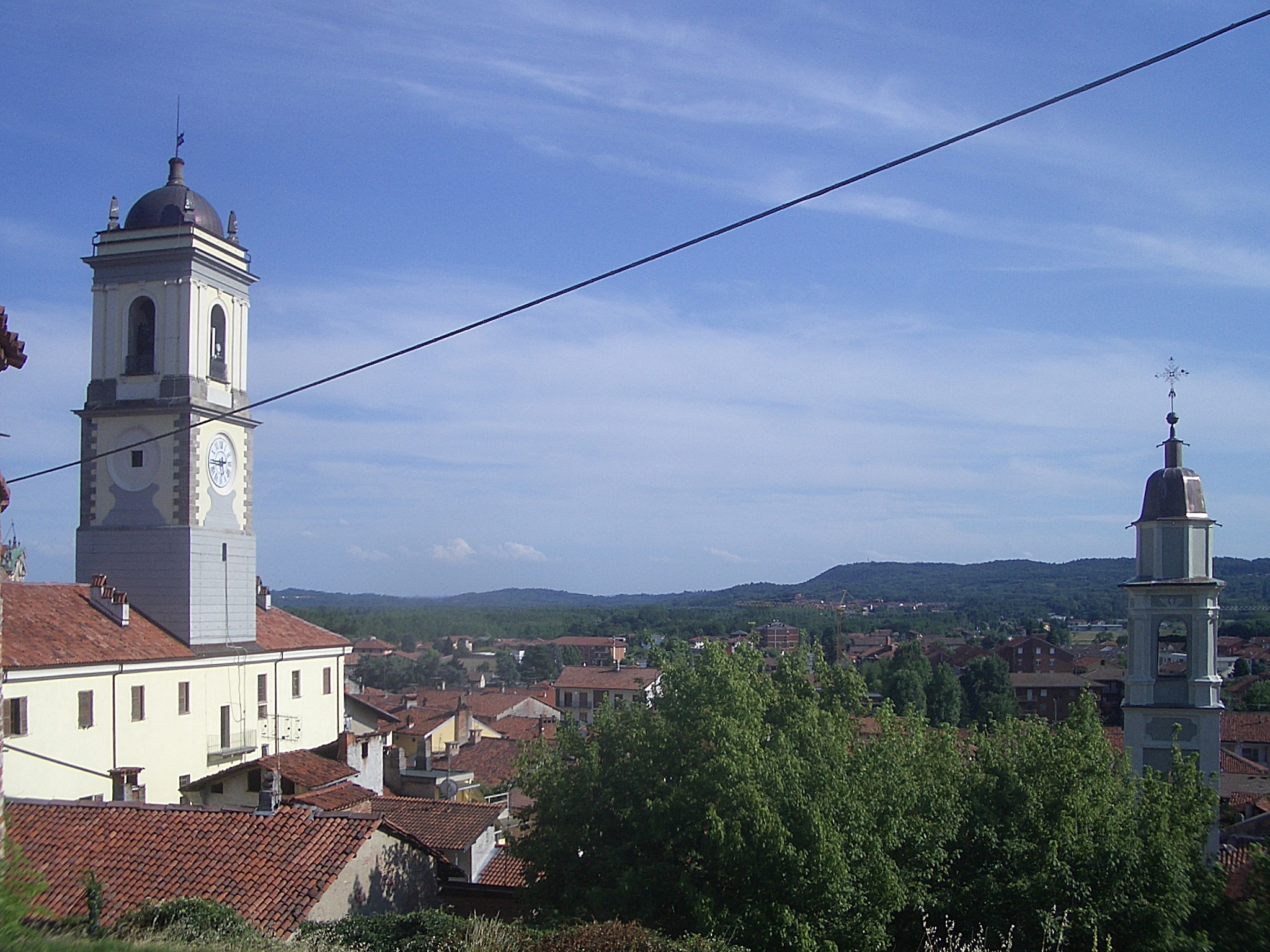 Strambino, view of the town fron the castle